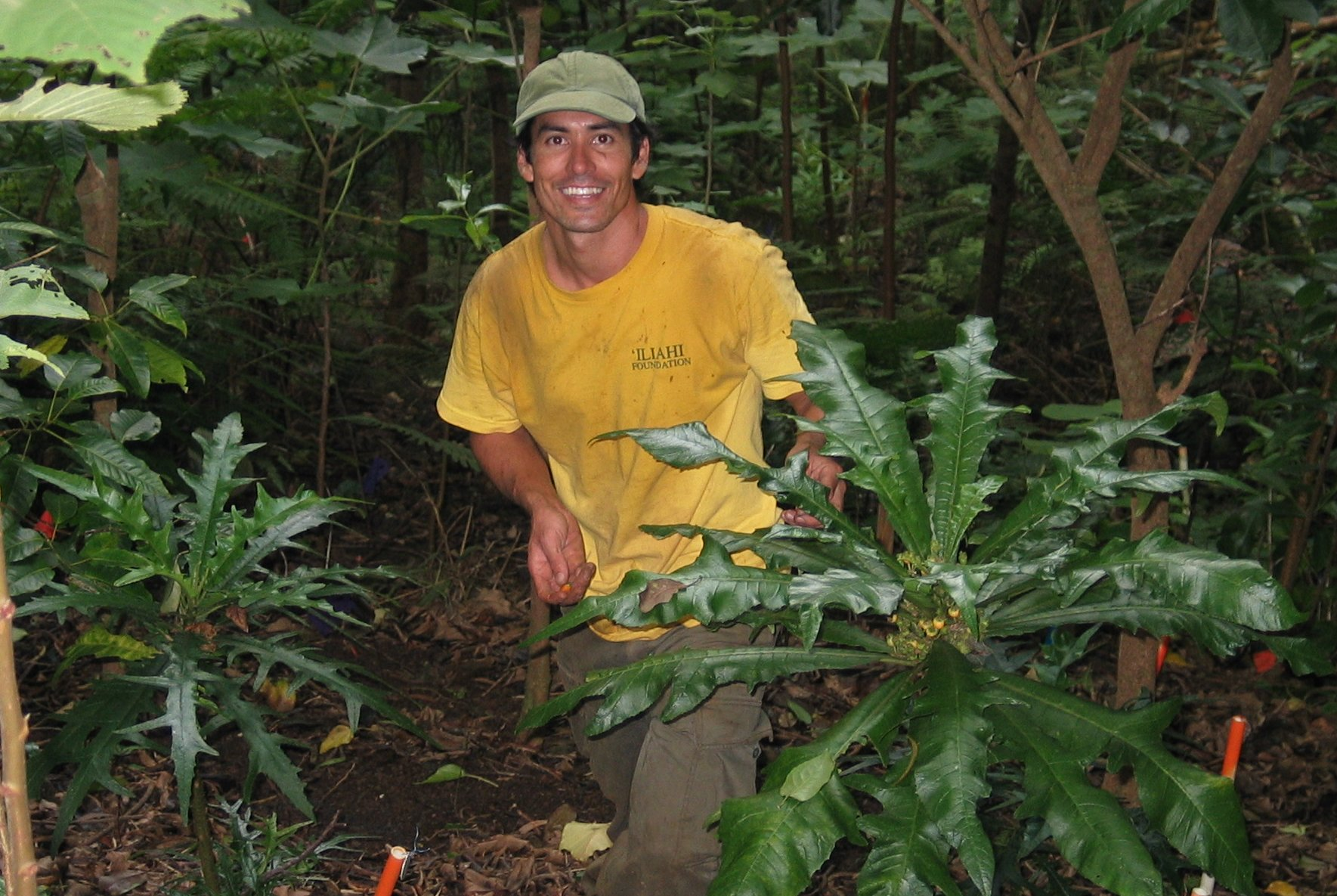 Hāhā Campanulaceae Endemic to the Hawaiian Islands (Oʻahu only) Waiʻanae Mts., Oʻahu Dan Sailer collecting (authorized) Cyanea pinnatifida fruit in an exclosure.